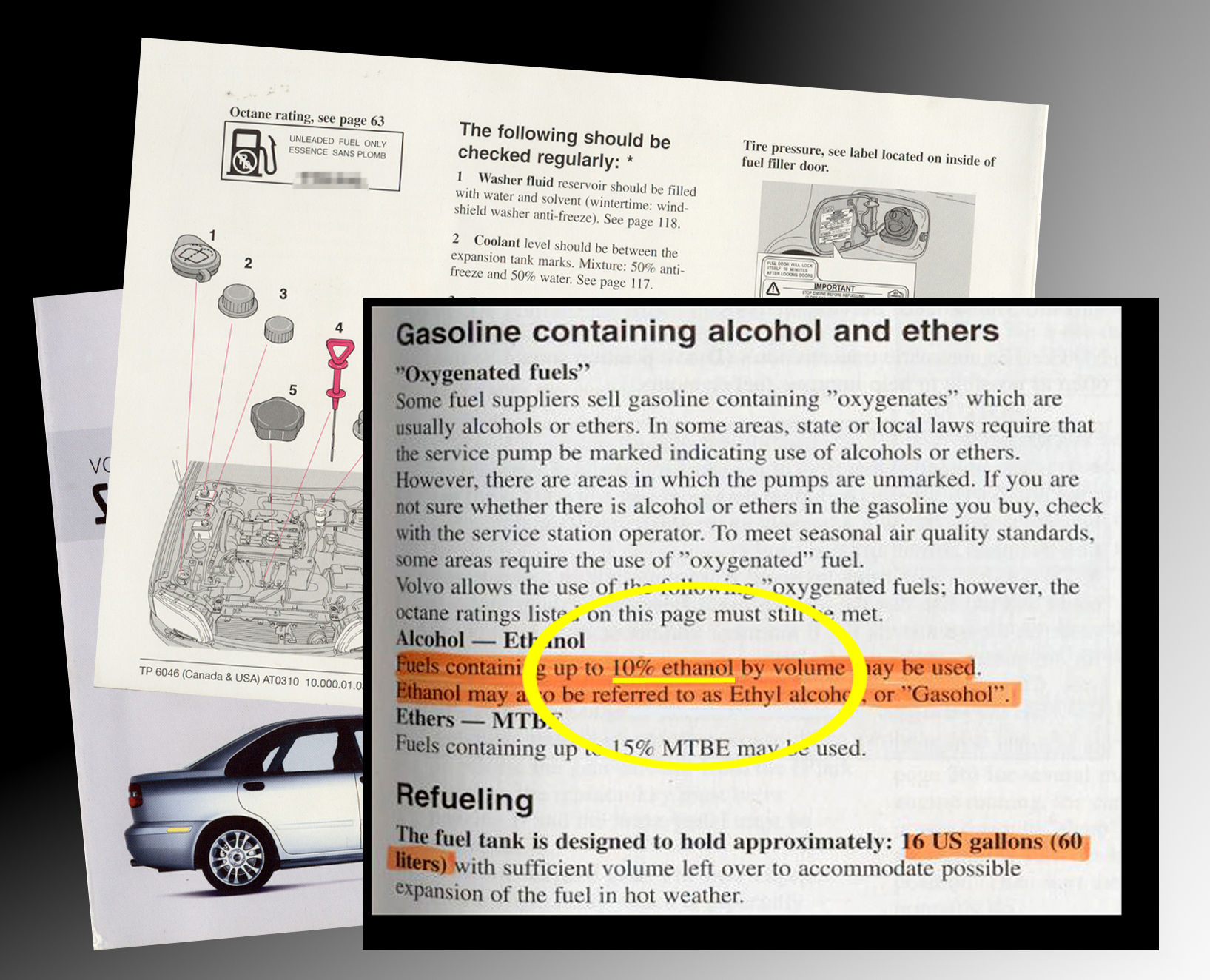 Artwork showing the typical recommendation by carmakers about the use of up to 10% ethanol blend (E10) stated in the owner's manual. Any copyright materials were moved to the background and showed only in part to avoid any copyrights dispute.